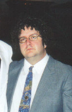 Don Webb, 1999